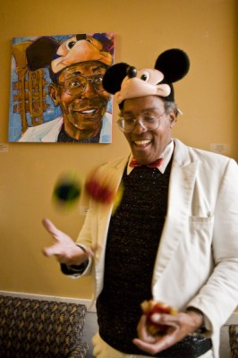 This is a photo of Kirk Reeves